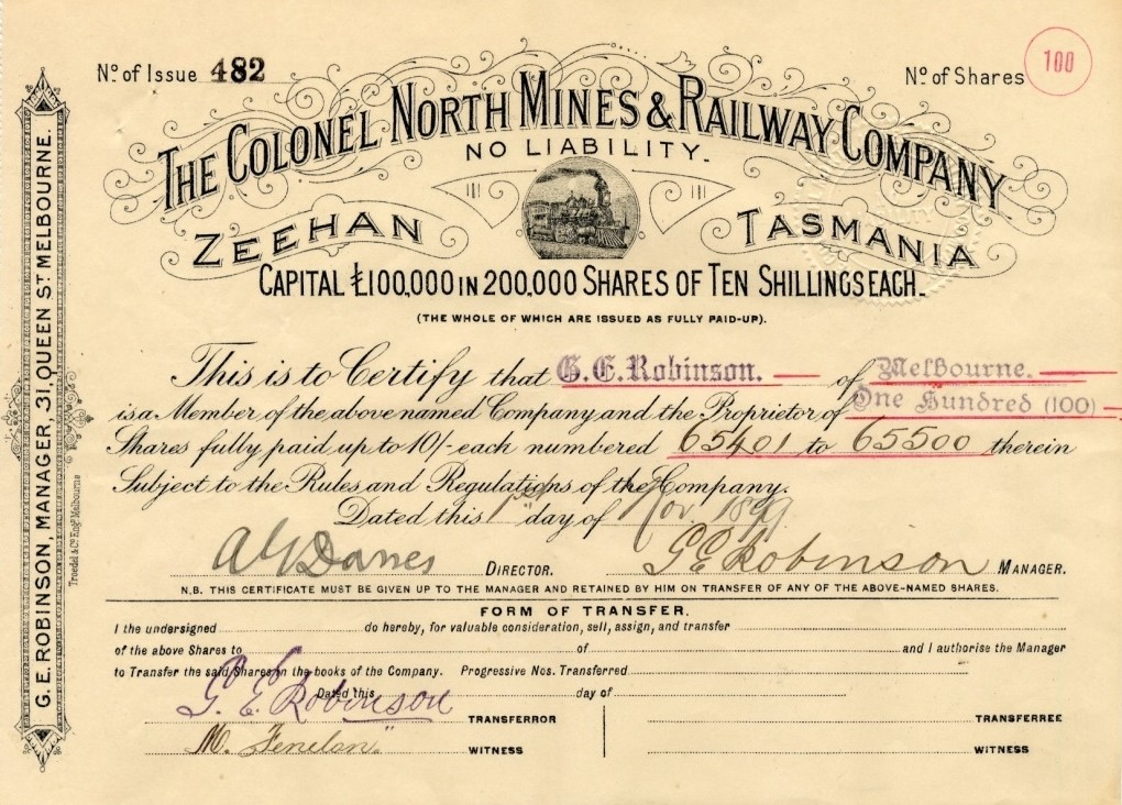 The Company was founded in 1899 by taking over all properties from the Grubb's Company and teh Colonel North Mining Company. The new company issued 200,000 shares of 10s. each. The key objective was mining, development of ther properties and extending the company's railway to the Comstock District.